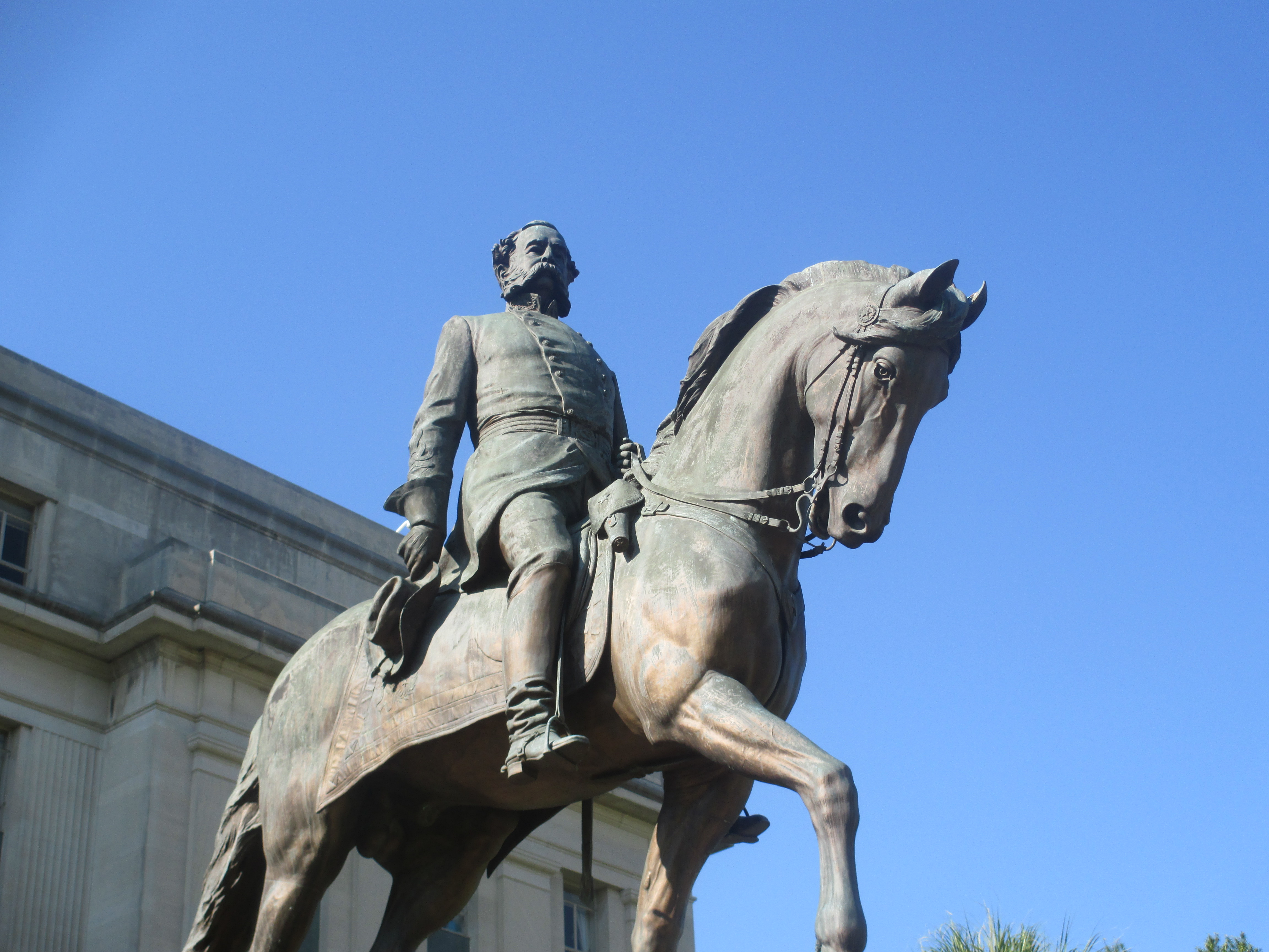 I took photo in Columbia, SC, of General and Governor Wade Hampton statue, erected in 1906.